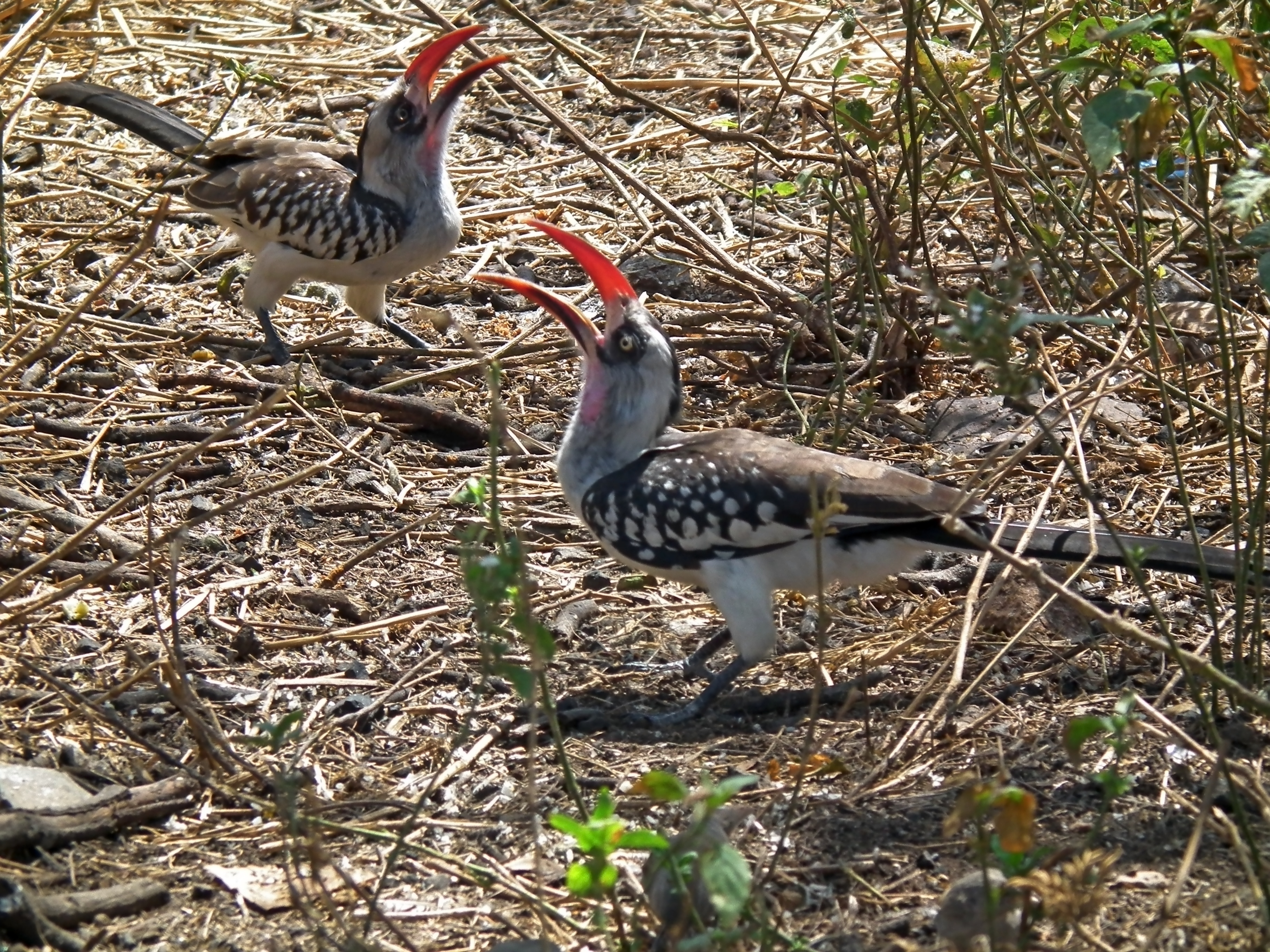 Tanzanian Red-billed Hornbills in the Serengeti National Park, Tanzania